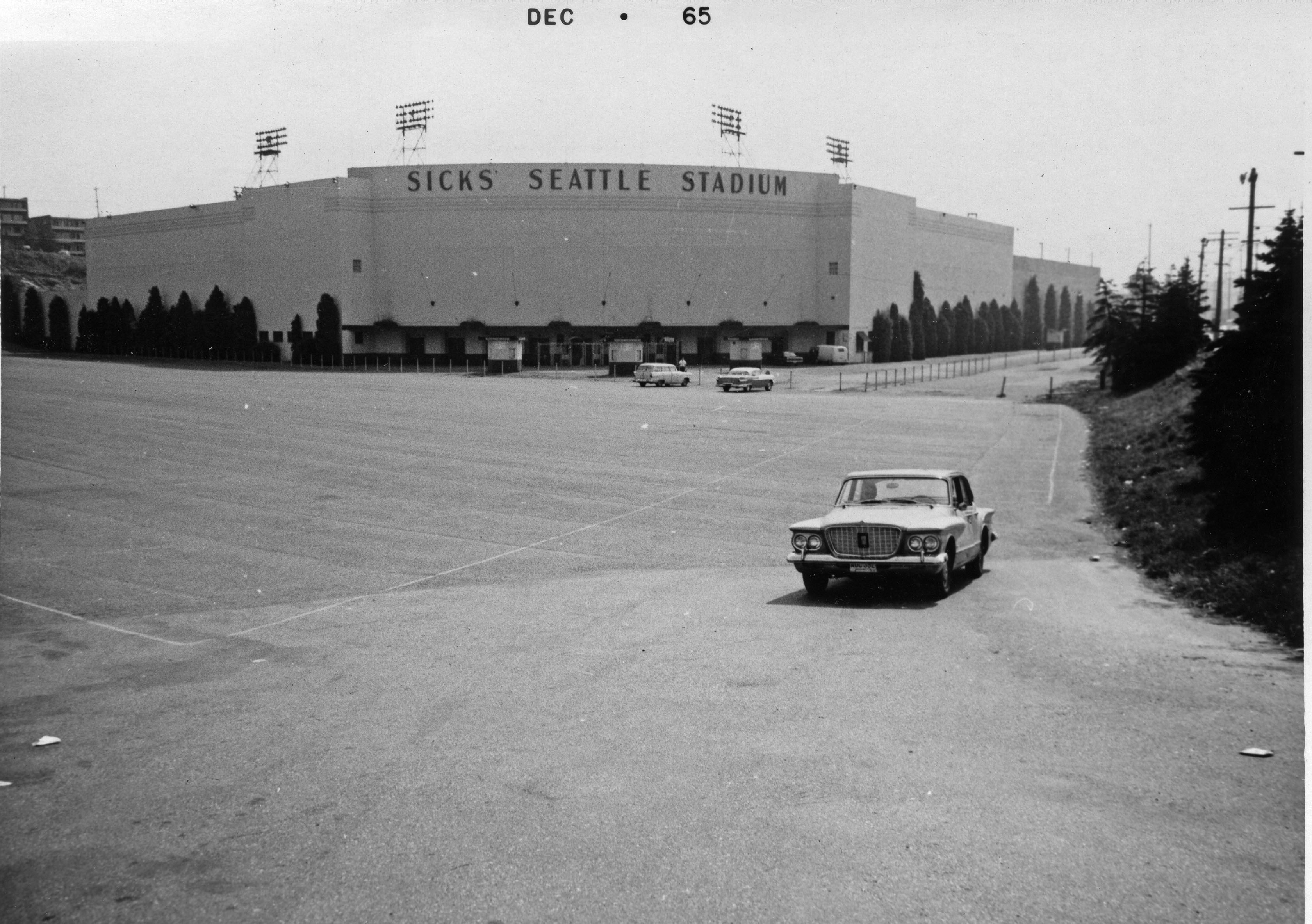 Sick's Stadium, Seattle, Washington, USA 1965. Item 77130, Clerk File 254612 (Record Series 1802-01), Seattle Municipal Archives.